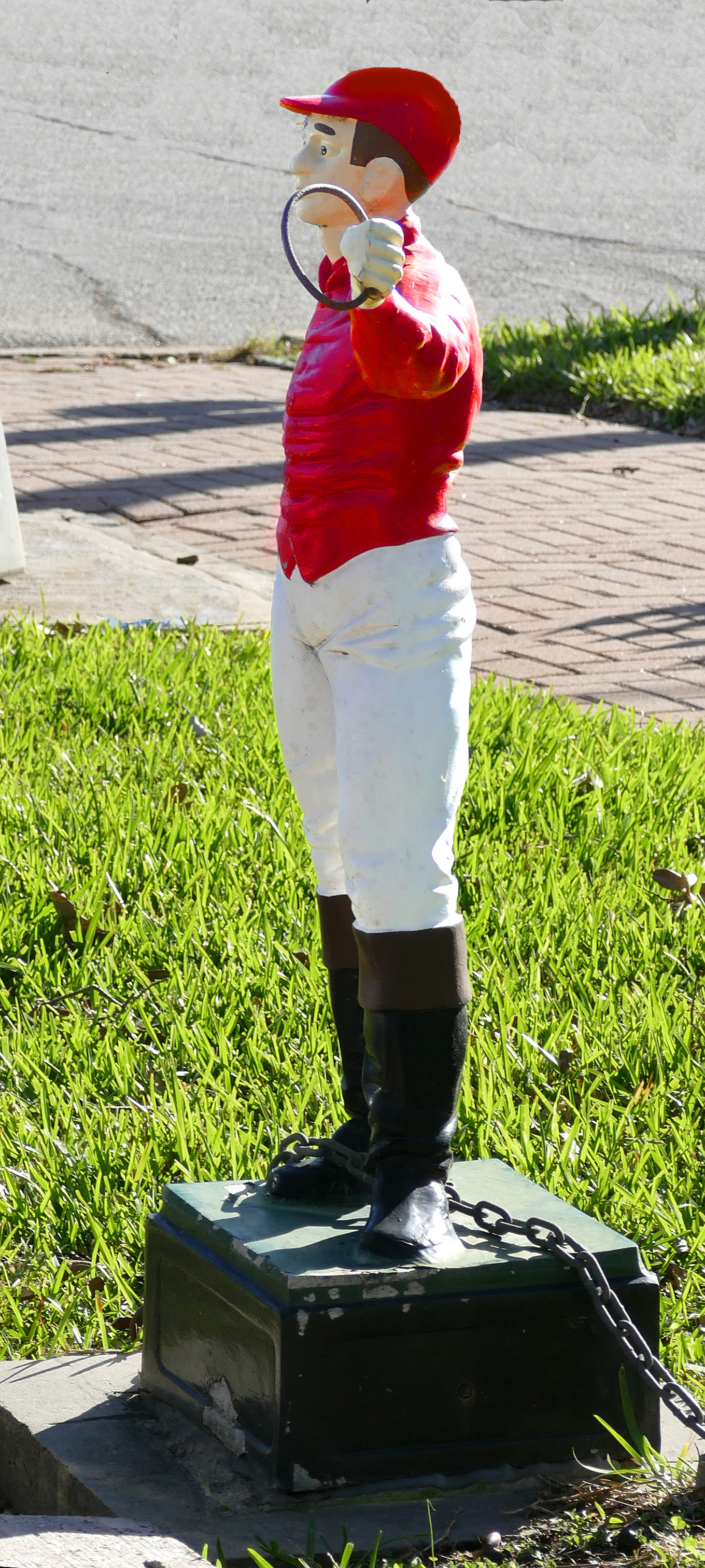 Lawn Jockey in front of historic home in Galveston.